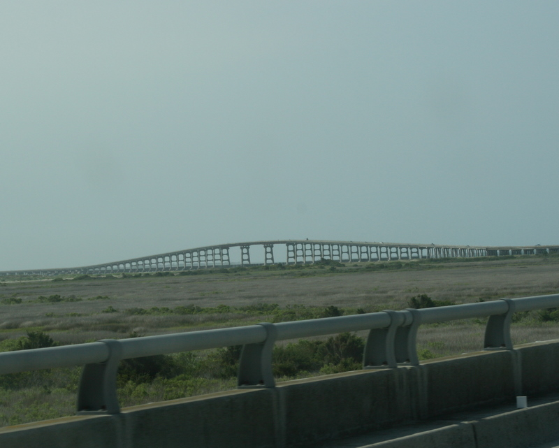 Oregon Inlet, Outer Banks, North Carolina, United States